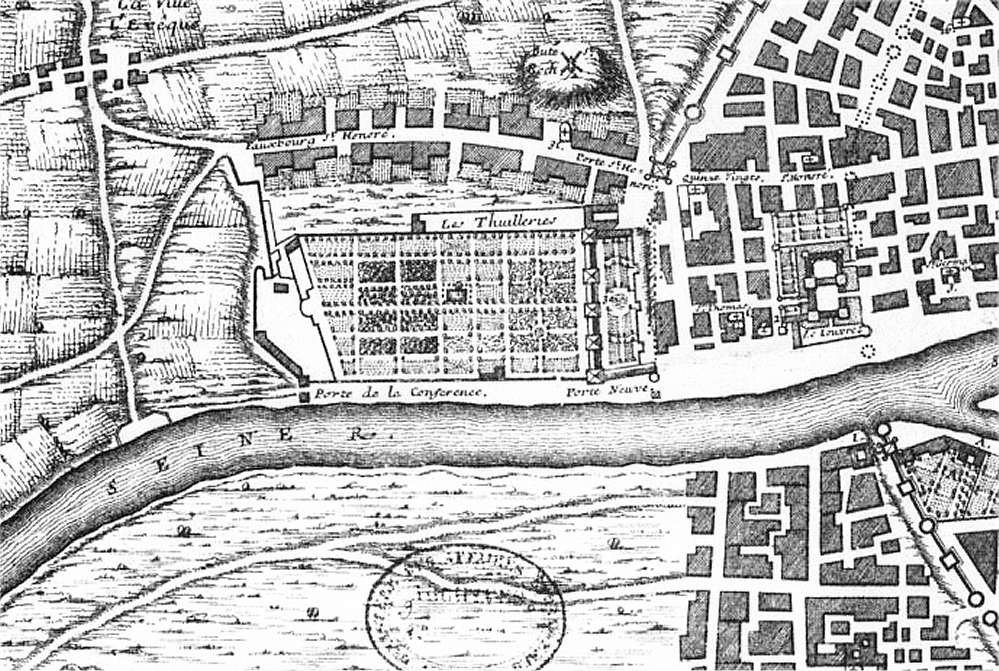 Part of map of Paris, 1422–1589, showing close up of the Tuileries palace and the Louvre. The Louvre is to the right, on the north bank of the Seine, opposite where the city walls meet the river; the Tuileries palace, built (c. 1563–80) by Catherine de' Medici, is further along the bank to the left, with its gardens extending to the countryside and a view of open country to the south of the river. Henry IV (1589–1610) was to join the Louvre to the Tuileries with a gallery along the bank of the Seine (see Blunt, Art and Architecture in France: 1500–1700, Yale University Press, 1999 edition, ISBN 0300077351).